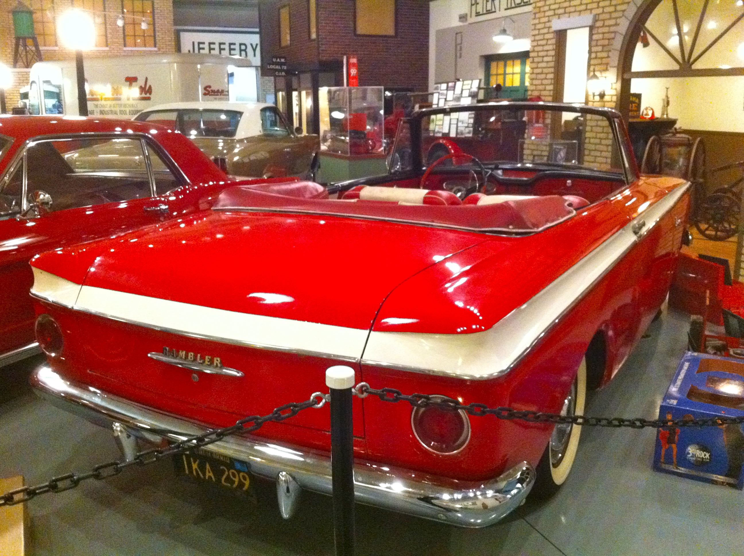 1962 Rambler American 400 convertible as used in the TV series "3rd Rock from the Sun" - rear. This vehicle was donated by the show's creators and producers: Bonnie and Terry Turner. Picture taken in The Rambler Legacy Gallery of the The Kenosha History Center.